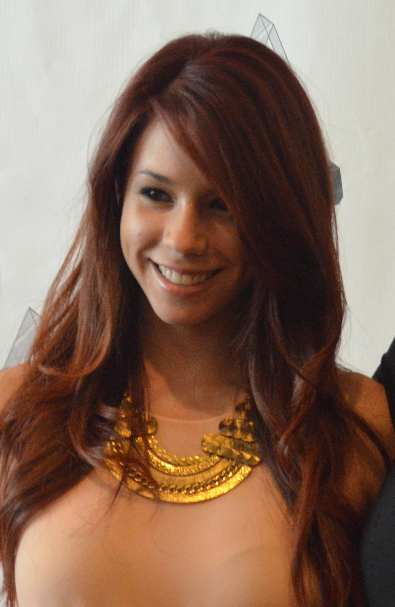 Actress Jillian Rose Reed at Media Access Awards in October 2012